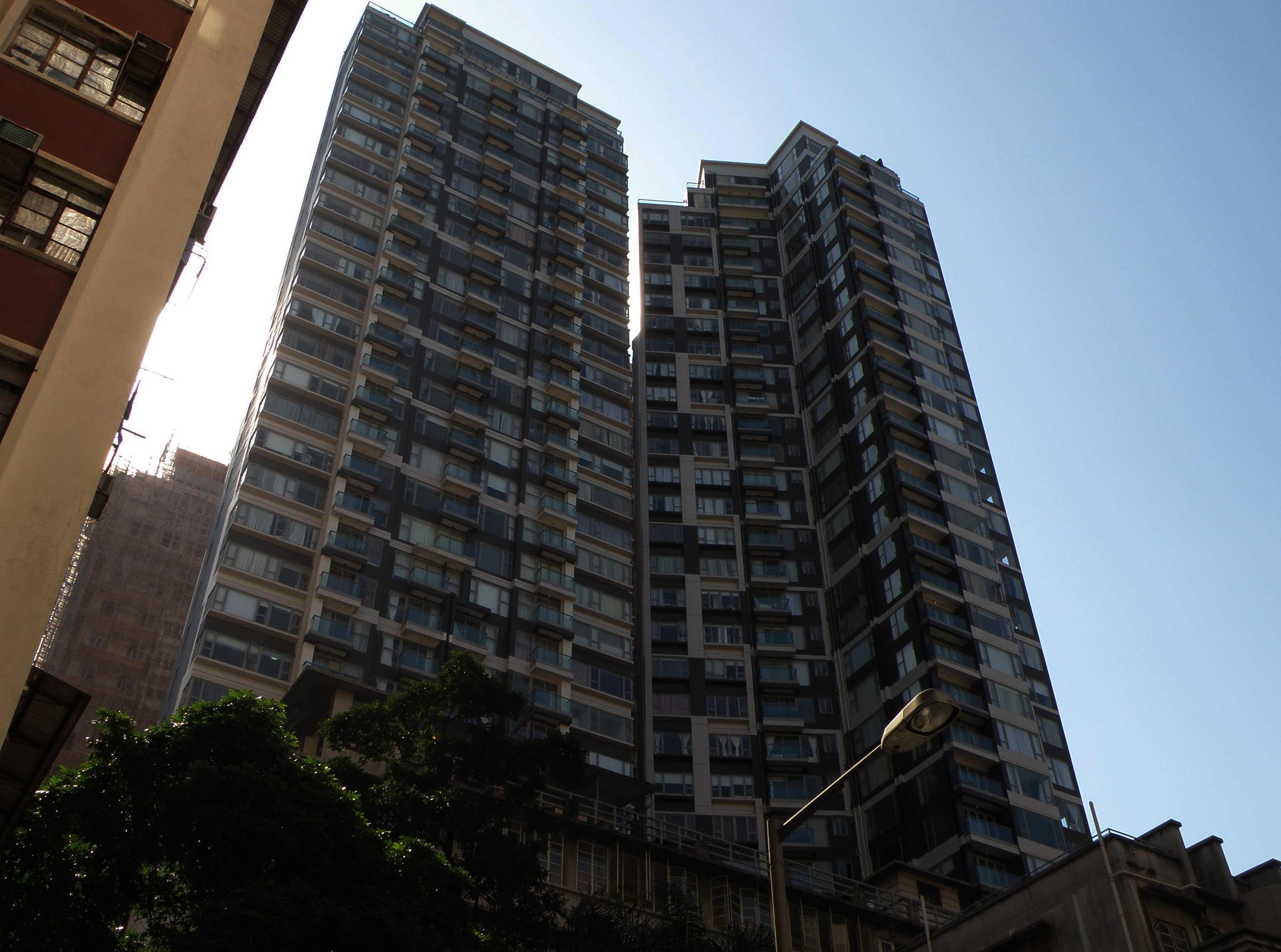 The Summa in Sai Ying Pun, Hong Kong.